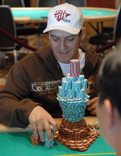 Carlos Mortensen, playing at the $25,000 World Poker Tour - No Limit Hold'em Championship